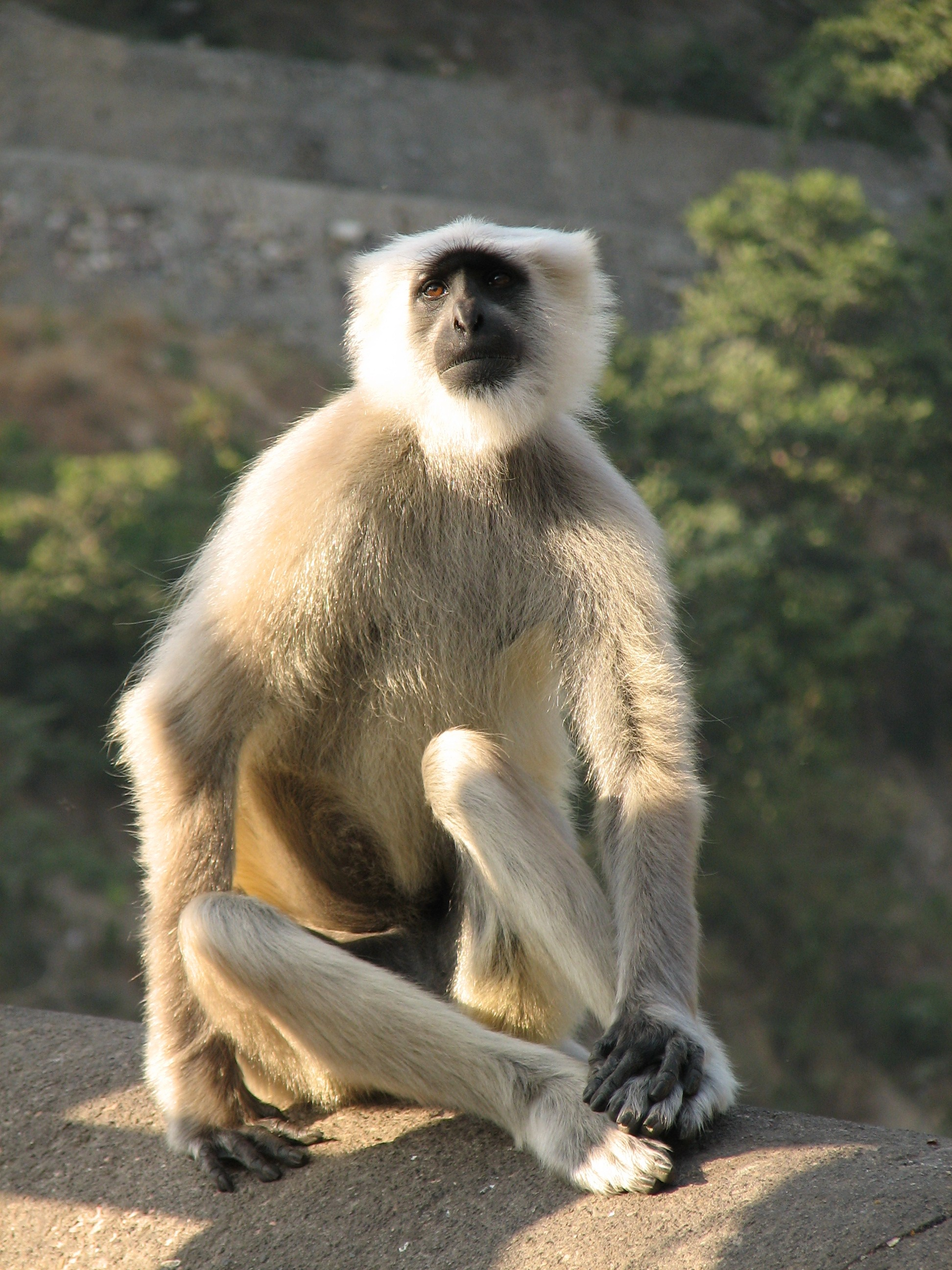 I love how wise and calm this guy looked hanging out on the Lakshman Jhula in Rishikesh. I wonder if he teaches yoga and meditation too? Probably really flexible!